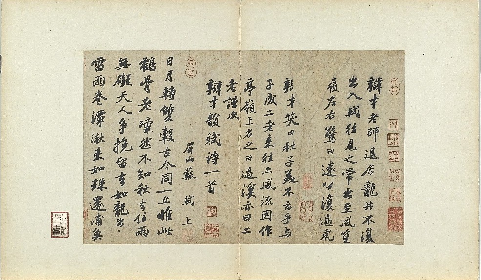 The Old Master, Biancai, retreated in the Drogon Well (Longjing) and merely departed his home. When I came to visit him, we often walked so far from his residence that his servants reminded him he'd crossed the Tiger Stream (Huxi), where he later built a pavilion in commemoration of our friendship. 19th, December, 1090.